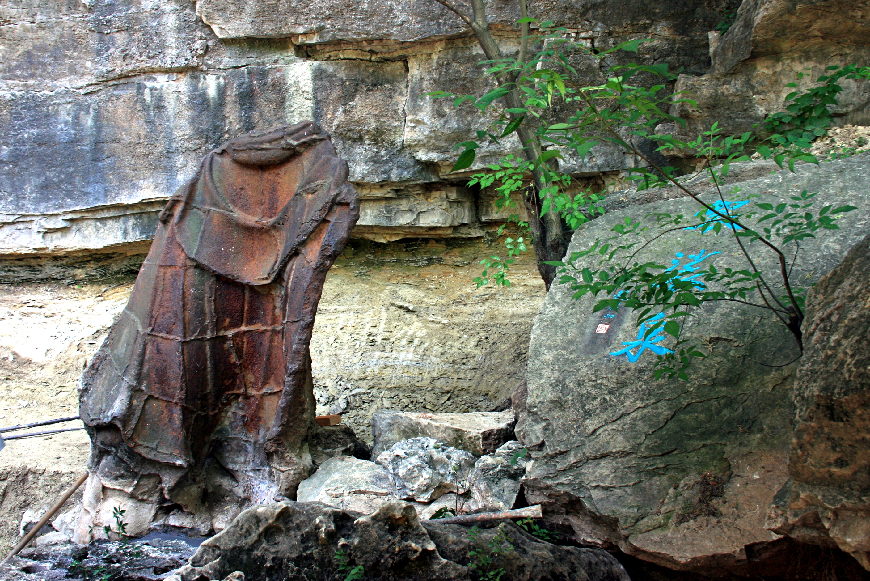 Photograph of the Cassock Spring, artesian karst spring located on the ground of the Lingyan Temple in the city of Jinan, Shandong Province, China. The image shows the piece of iron interpreted as a "cassock" and a rock inscription that reads "Jiāshā Quán", the Chinese name of the Cassock Spring.